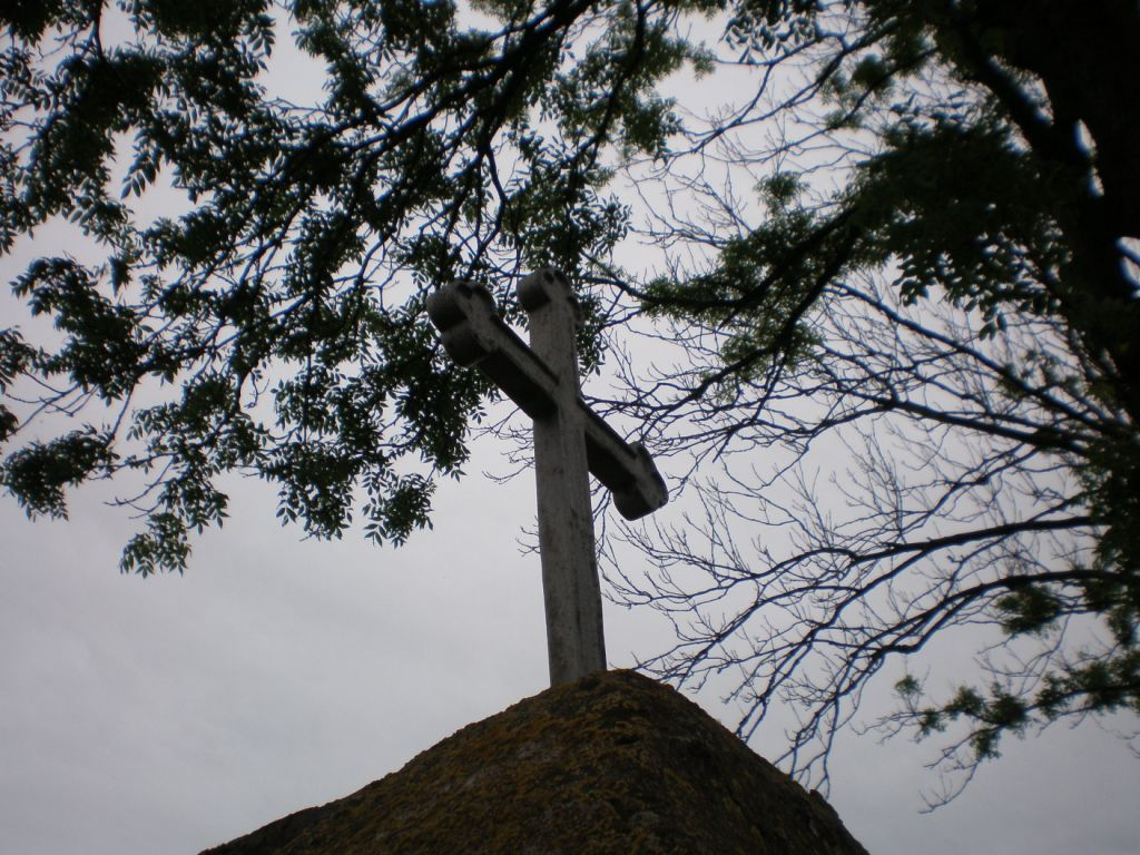 Cross in Vaivadiškiai, Lithuania